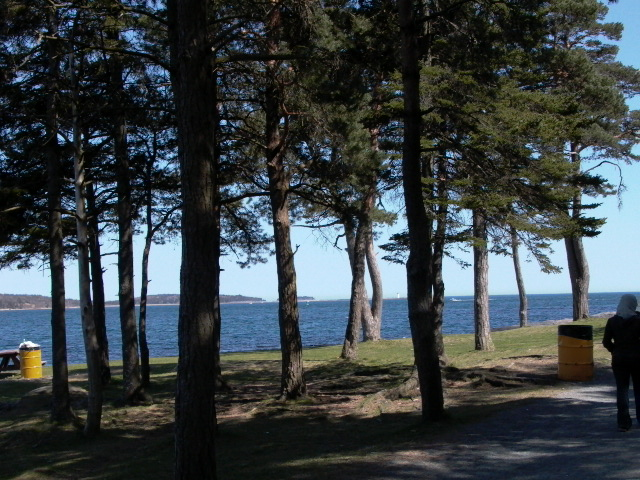 Point Pleasant Park, Halifax, Nova Scotia. Taken by a few months before Hurricane Juan hit the park in September, 2003.